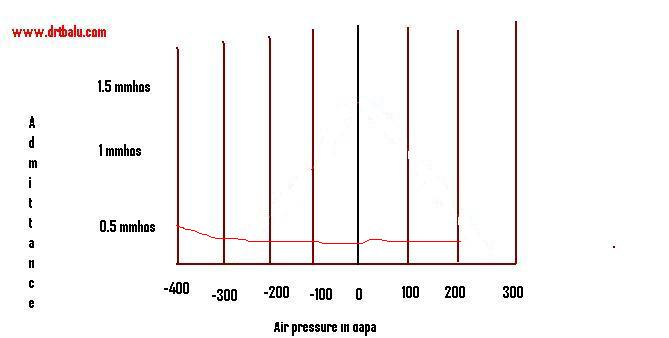 Tympanogram type B